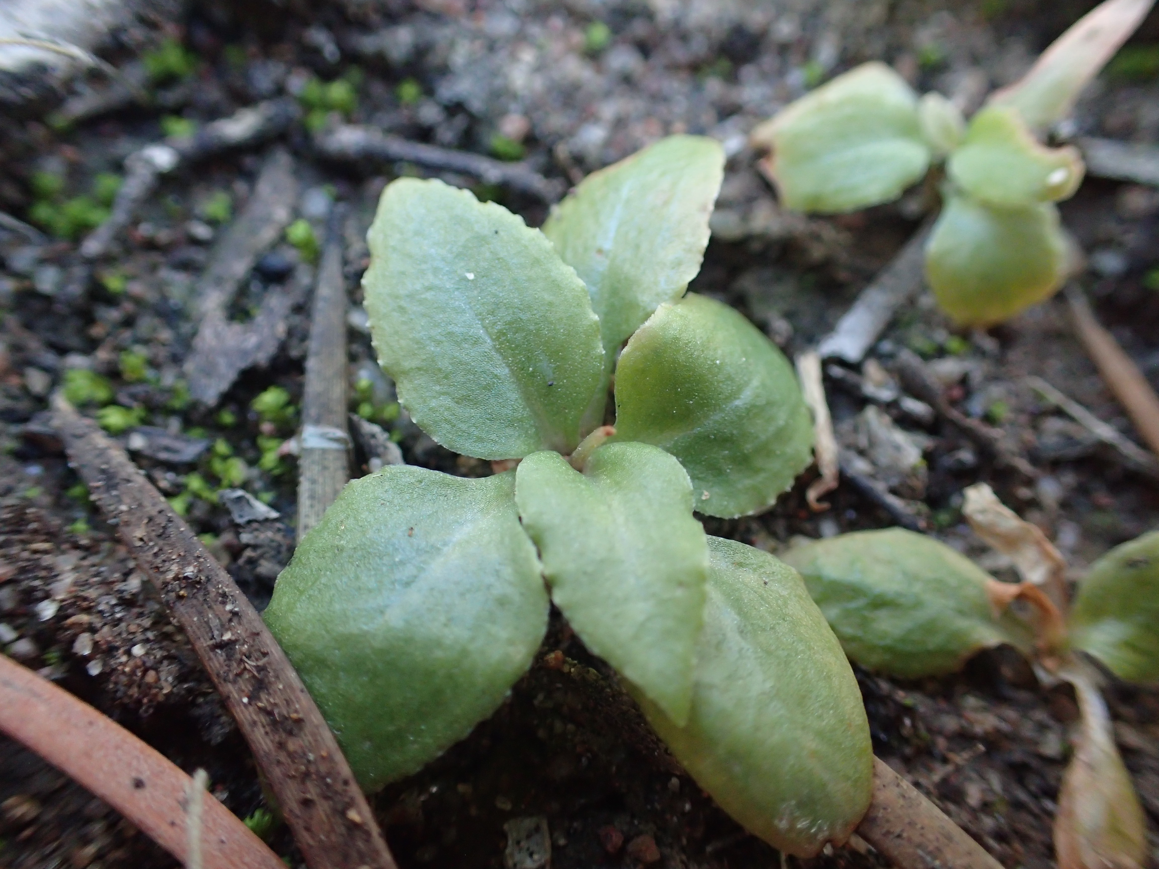 Leaf rosette of Pterostylis scitula in Candys Bush Reserve, Moora